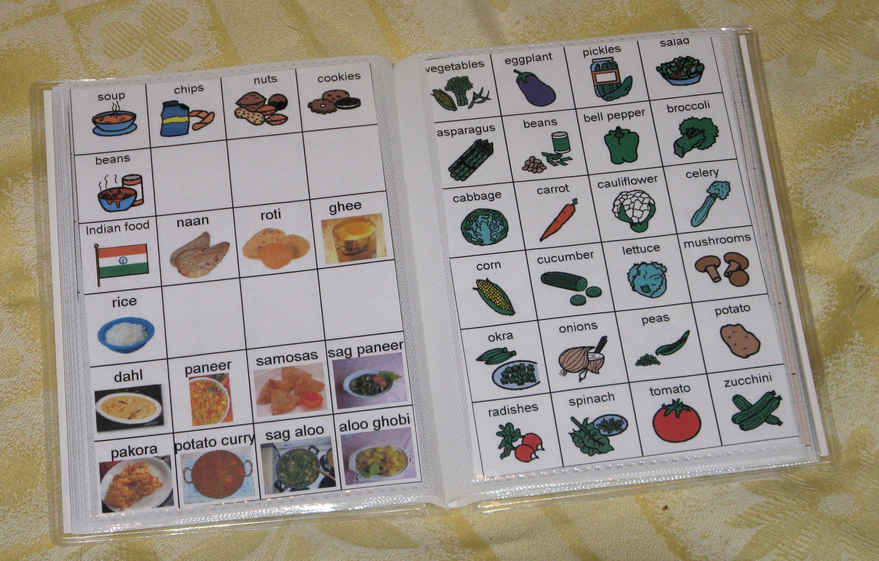 Communication book